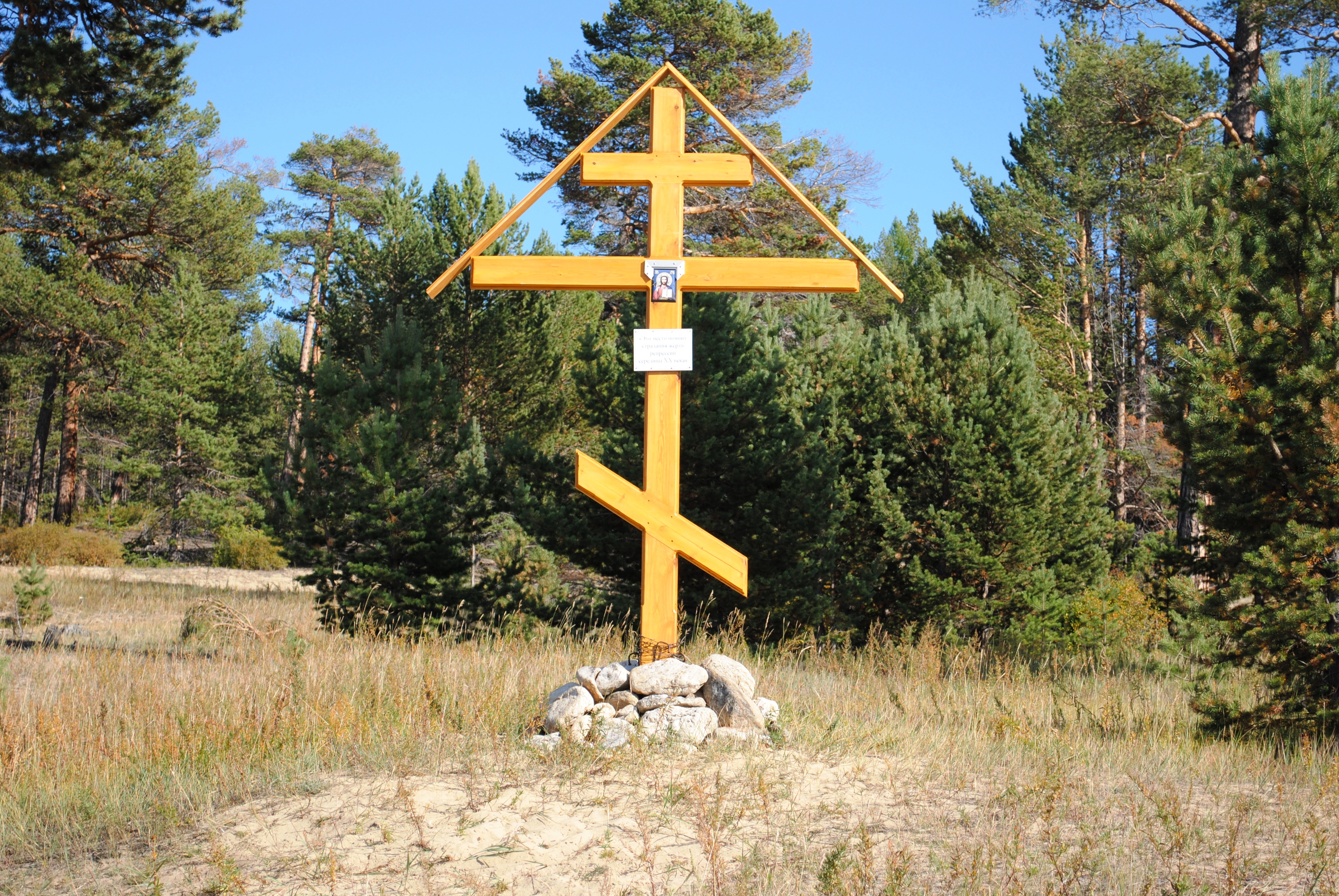 Olkhon